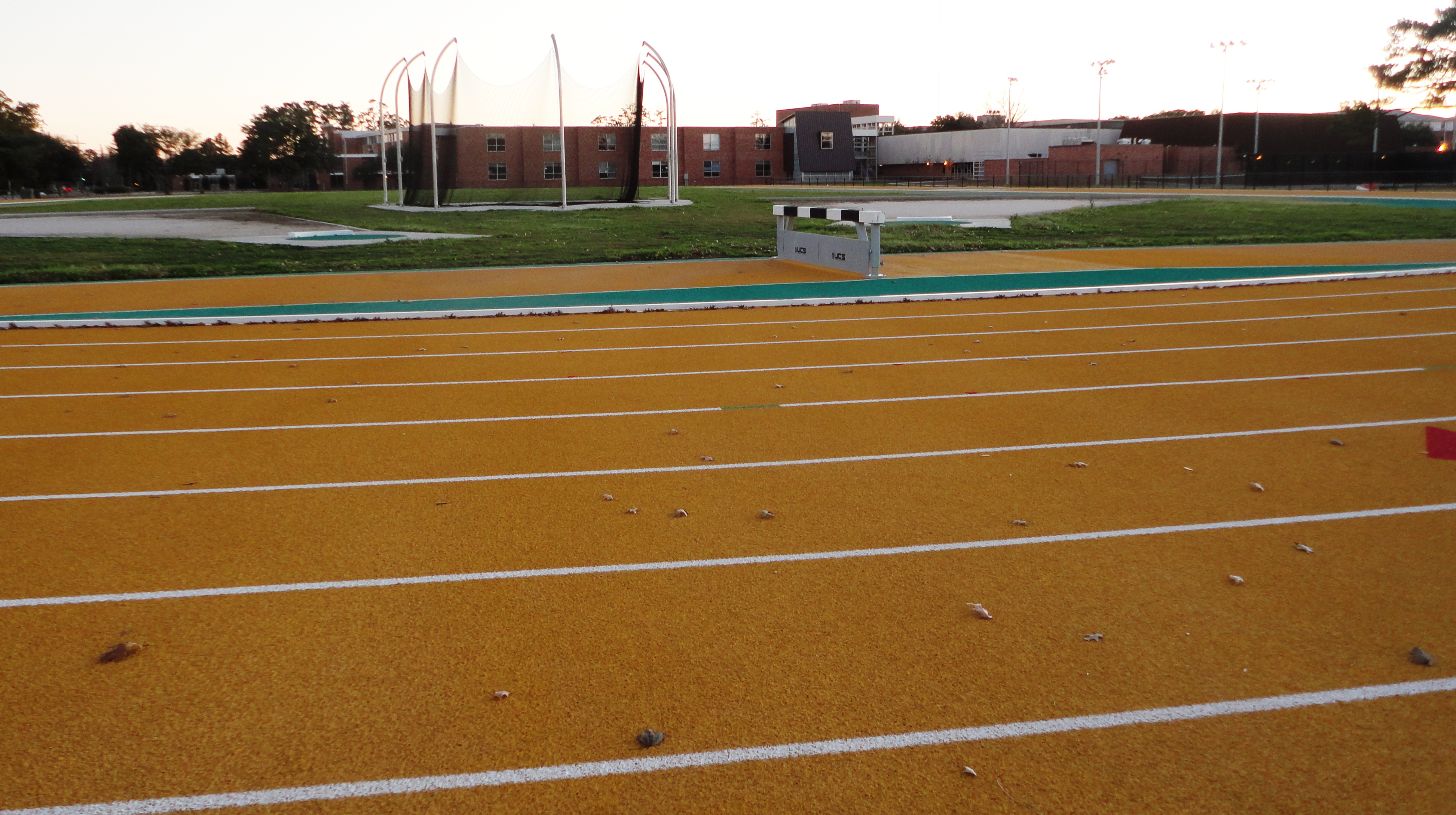 Foreground: Southeastern Louisiana University track and field facilities. Background: Kinesiology and Health Studies building.